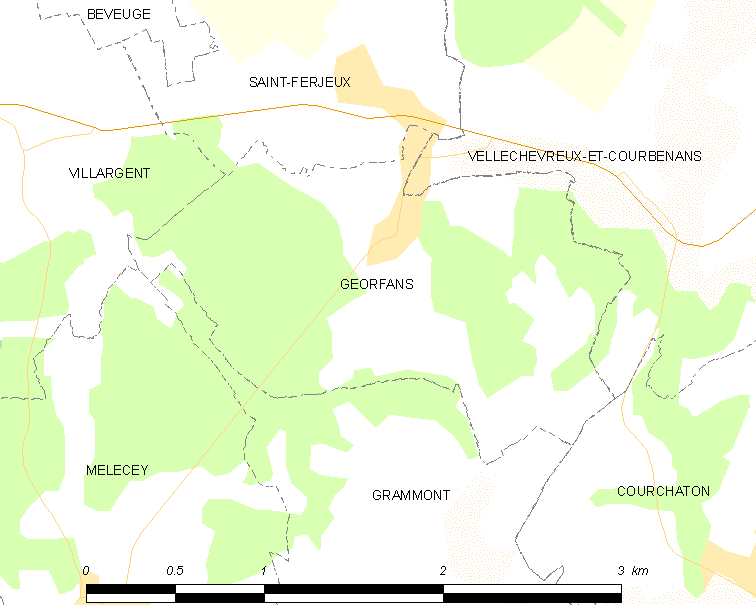 Map of French municipality